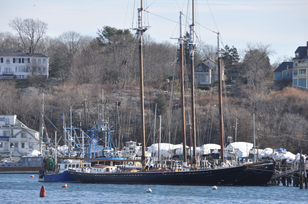 Adventure (schooner) at its berth in Gloucester, Massachusetts, 2012.